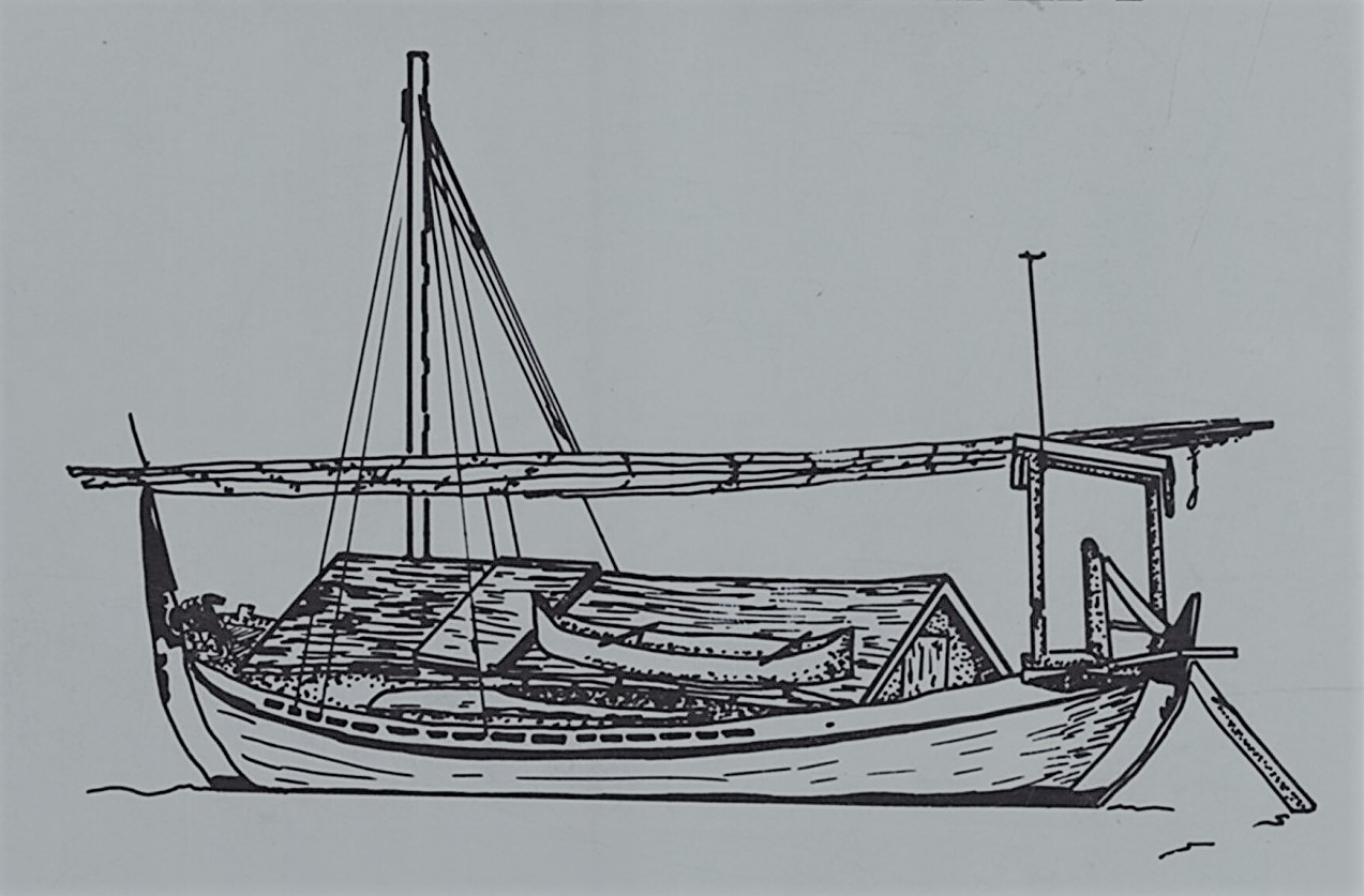 A reproduction of an image by Nuala Scott, depicting the leteh leteh (leti leti) Sekar Aman. The Sekar Aman was a 15 metre long Indonesian trading vessel or perahu. This type of craft were traditionally used in the past by Indonesian seafareres to come to Australian shores to collect trepang (sea slug), turtle shell and trade with Indigenous Australians. On top of the perahu would be a canoe that was called pengarak in the Madura language.